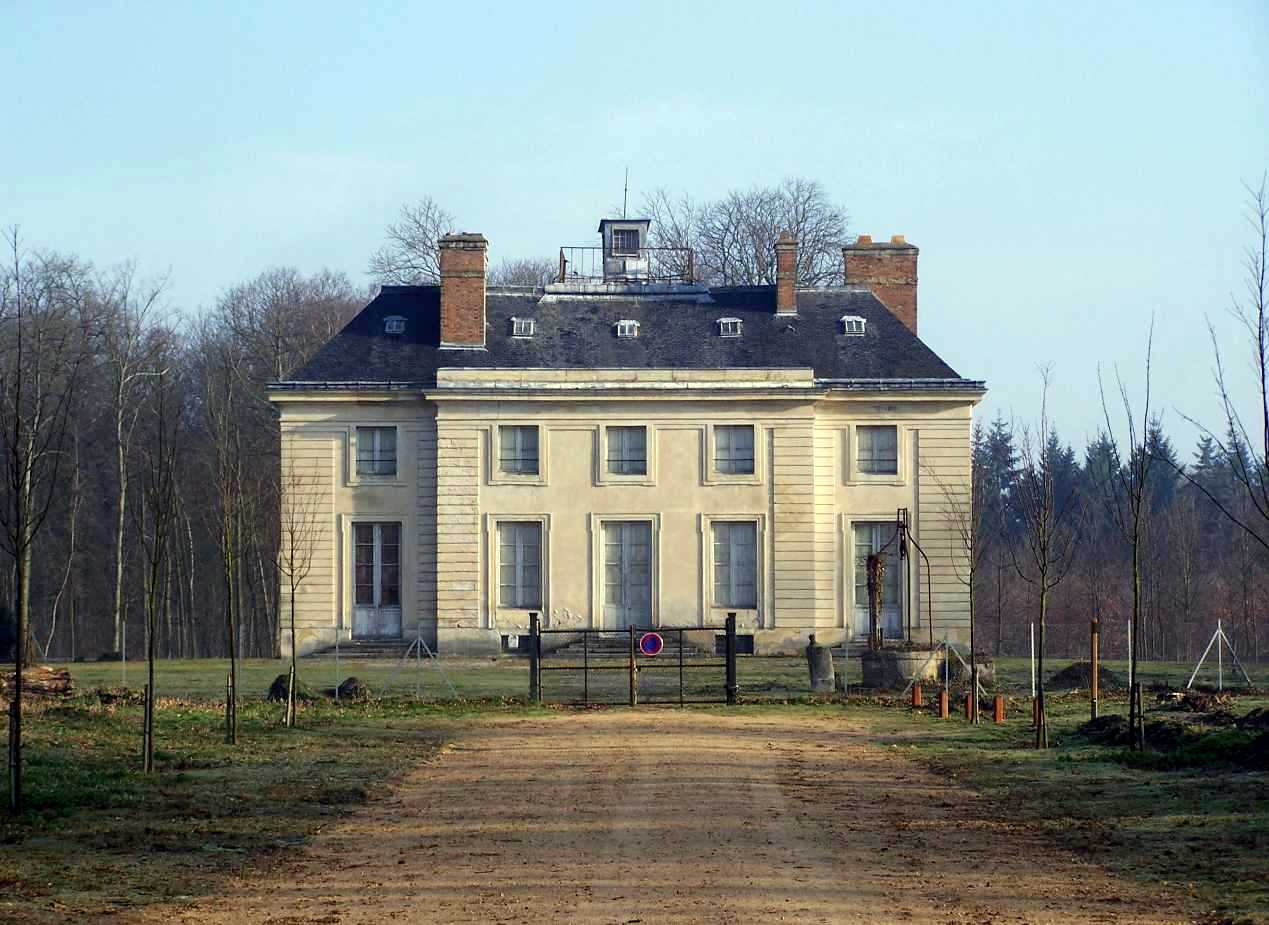 Pavilion de la Muette in the forest of Saint-Germain-en-Laye (Yvelines, France)